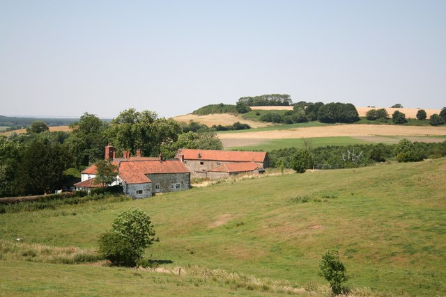 Lincolnshire Wolds: View towards Ash Farm and The Clump from the hill above North Willingham.